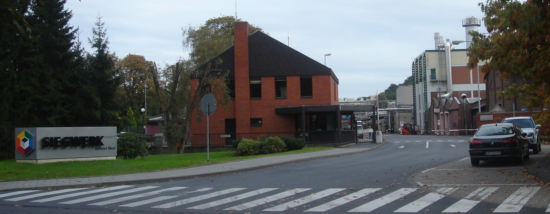 Western Entrance to the Siegwerk industrial area in Siegburg, Germany.